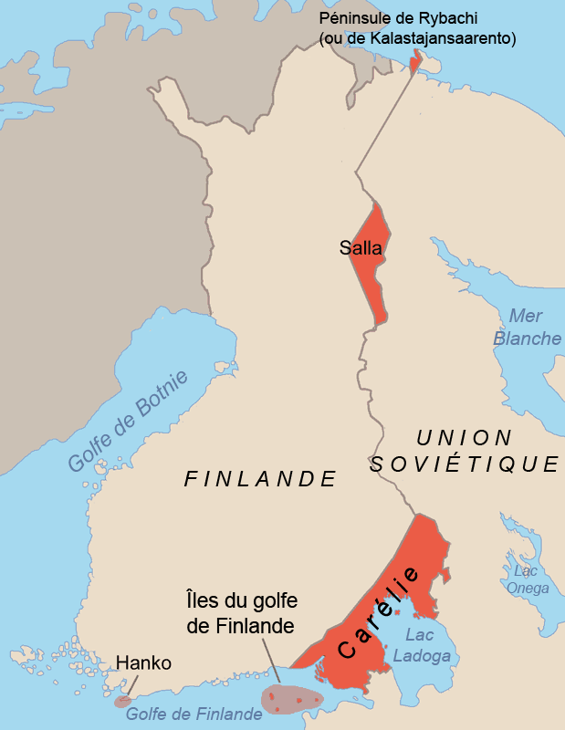 French map of the areas ceded by Finland to the Soviet Union after the Winter War 1940.